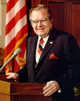 Former Texas Governor Dolph Briscoe